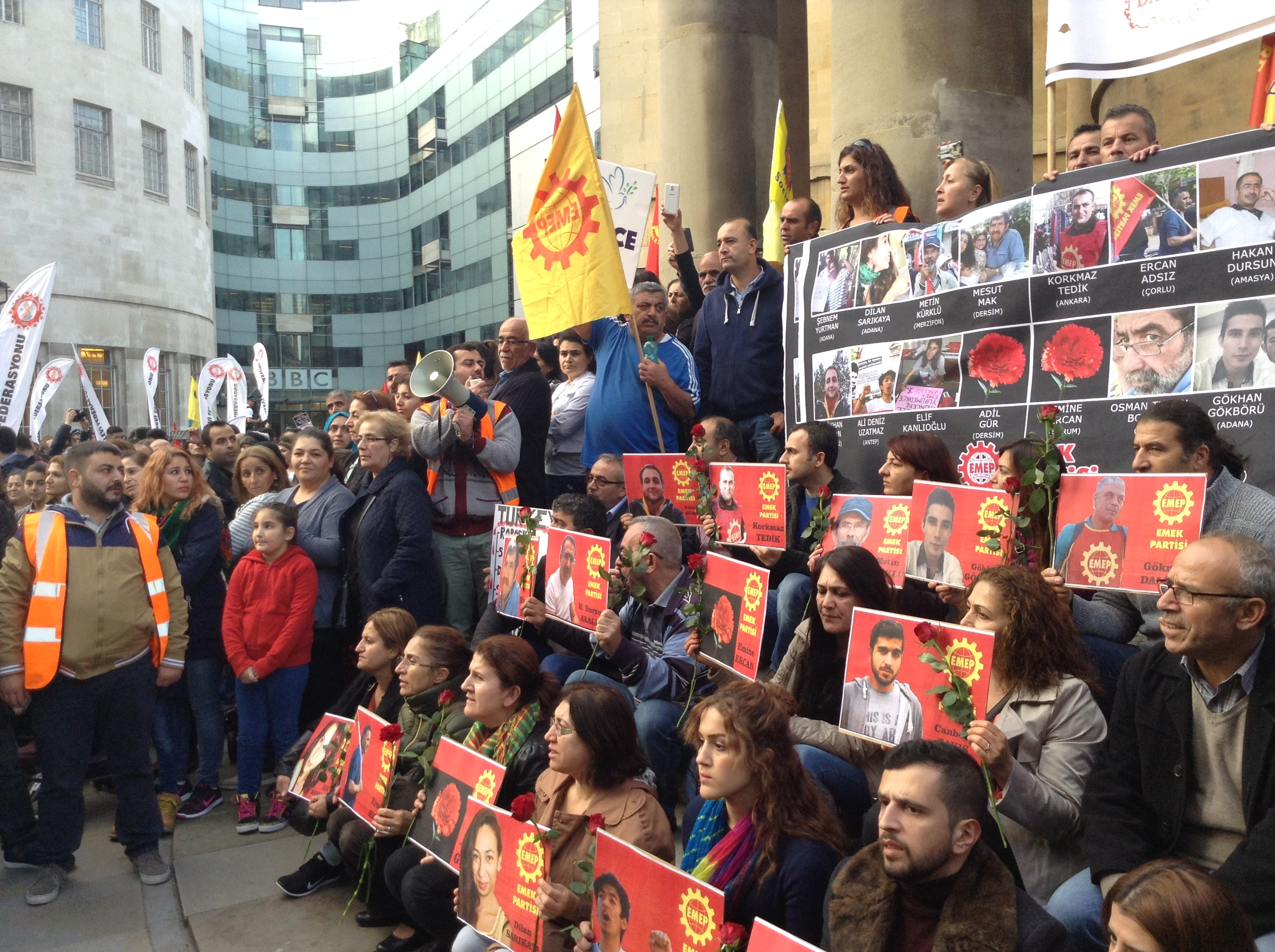 Members of Turkish Labour Party (EMEP) at a London protest mourning their comrades lost in the 2015 Ankara bombings.